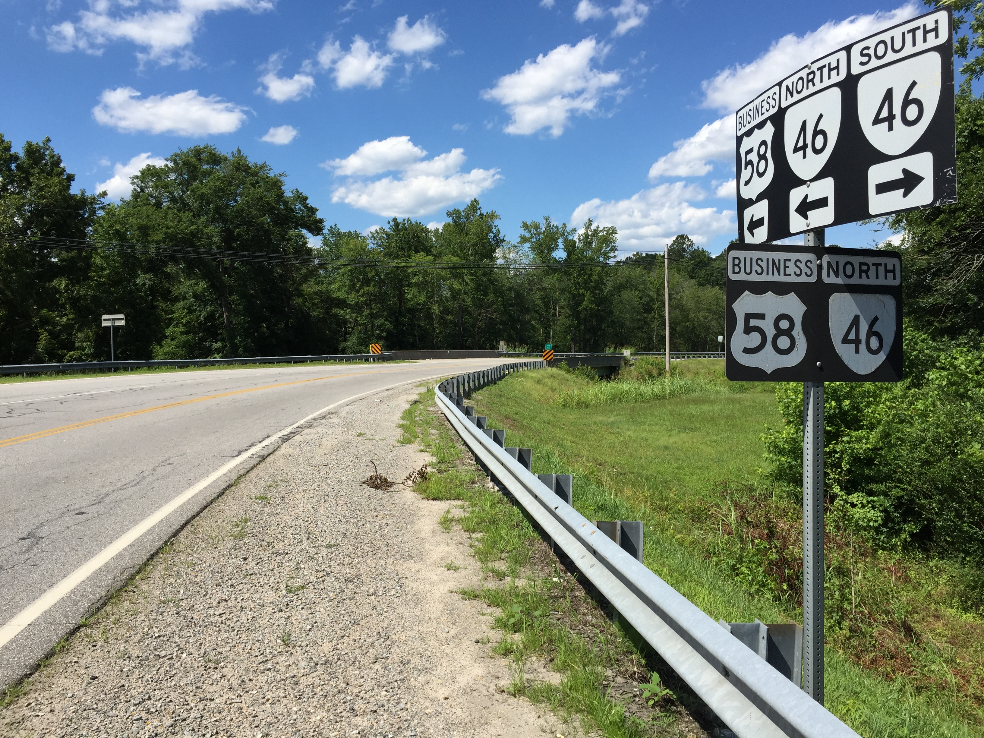 View east along U.S. Route 58 Business and north along Virginia State Route 46 (Christanna Highway) at Cattail Drive (Virginia State Secondary Route 694) in Lawrenceville Hills, Brunswick County, Virginia